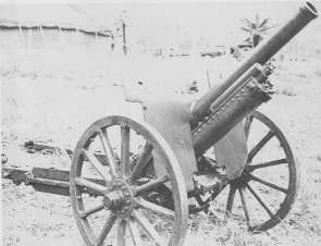 1935 Type 75mm Mountain Gun. Type 94 75mm Mountain Gun Introduced Year : 1935, Caliber : 75 mm, Barrel Length : 1.56 m (L20.8), EL Angle of Fire : -10 to +45 Degrees, AZ Angle of Fire : 40 Degrees, Shell Weight : 6.34 Kg, Muzzle Velocity : 392 m/sec, Weight : 0.536 ton, Range : 8,300 m